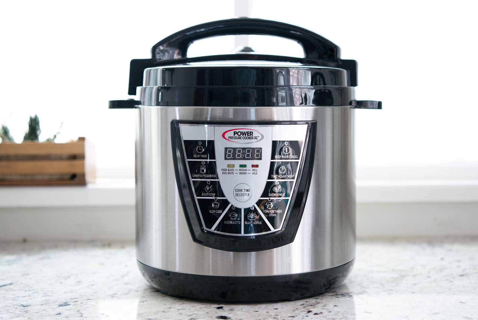 Instant Pot DUO60 pressure cooker.